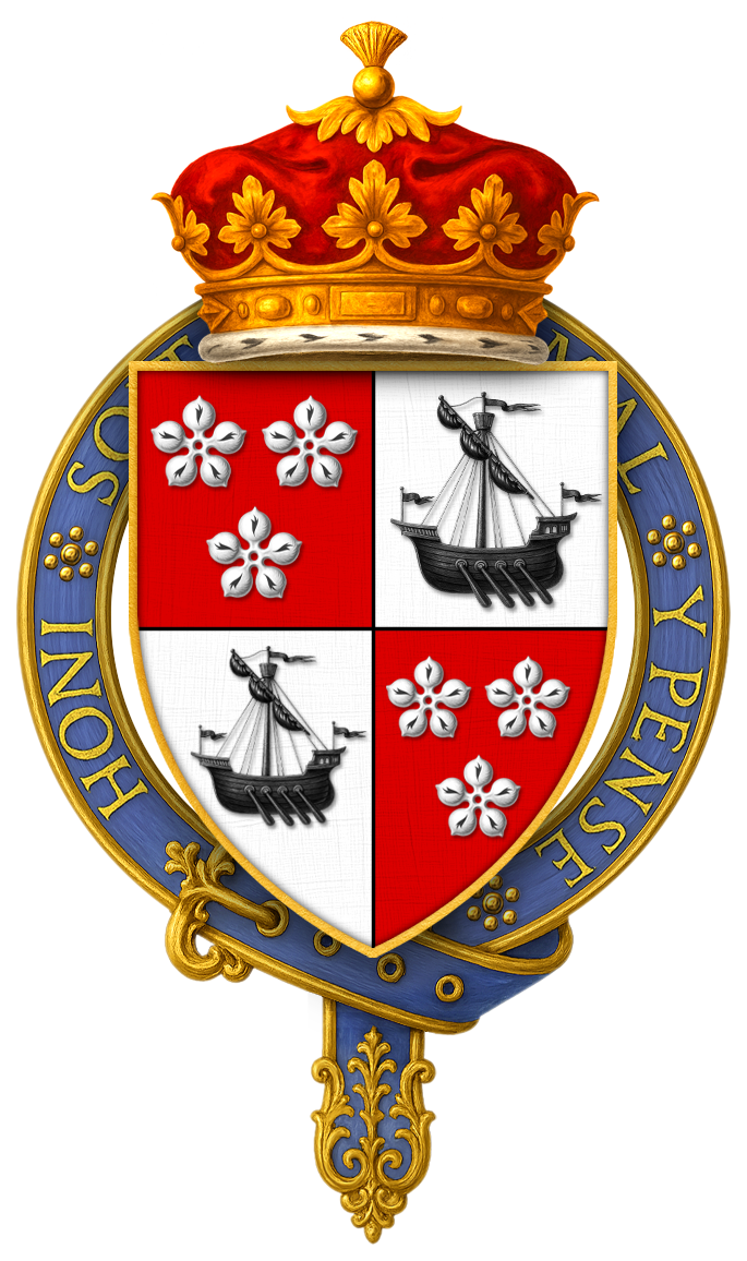 Shield of arms of John Hamilton, 1st Duke of Abercorn, KG, PC